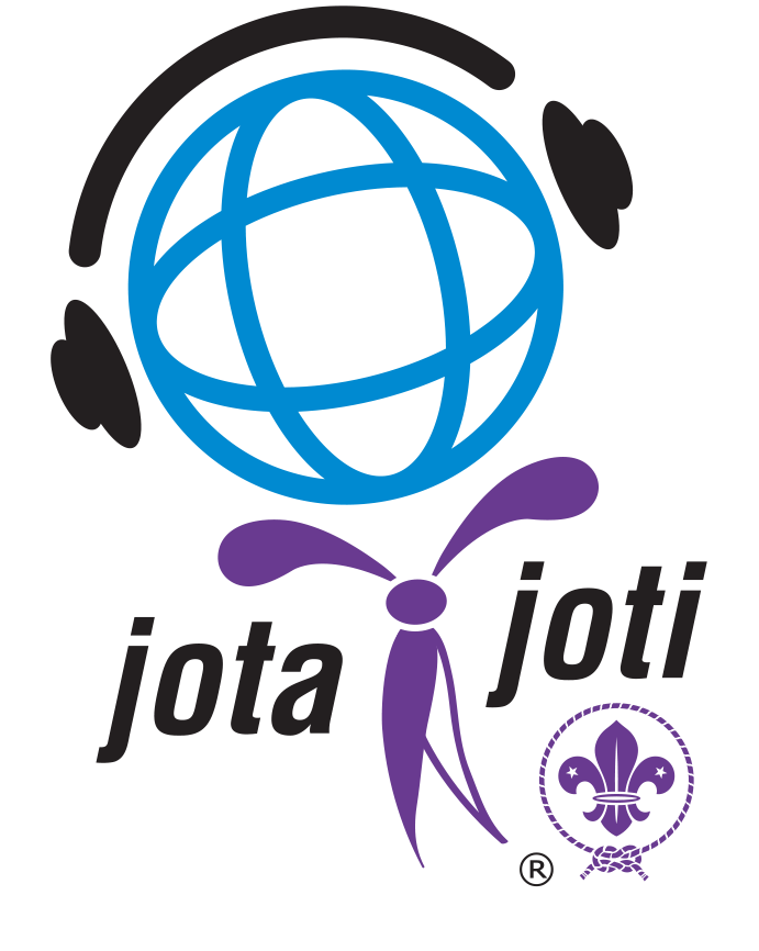 JOTA-JOTI official logo